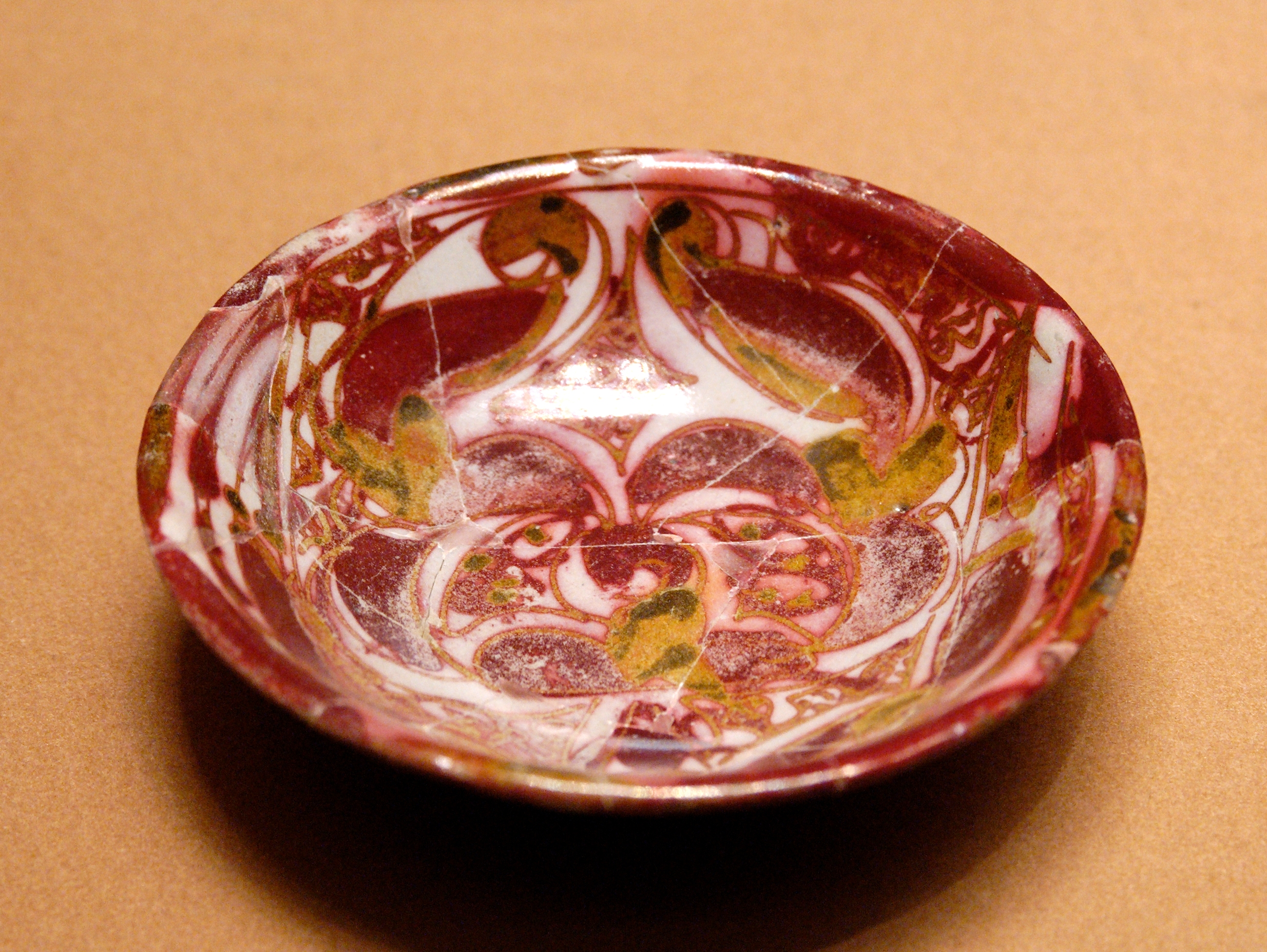 Small cup.